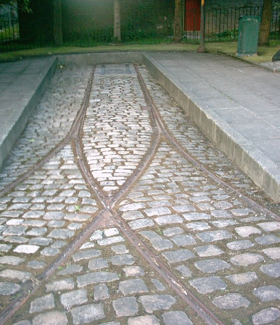 Old Tram Turning Triangle. The southern terminus of the first steam powered street tramway in the UK